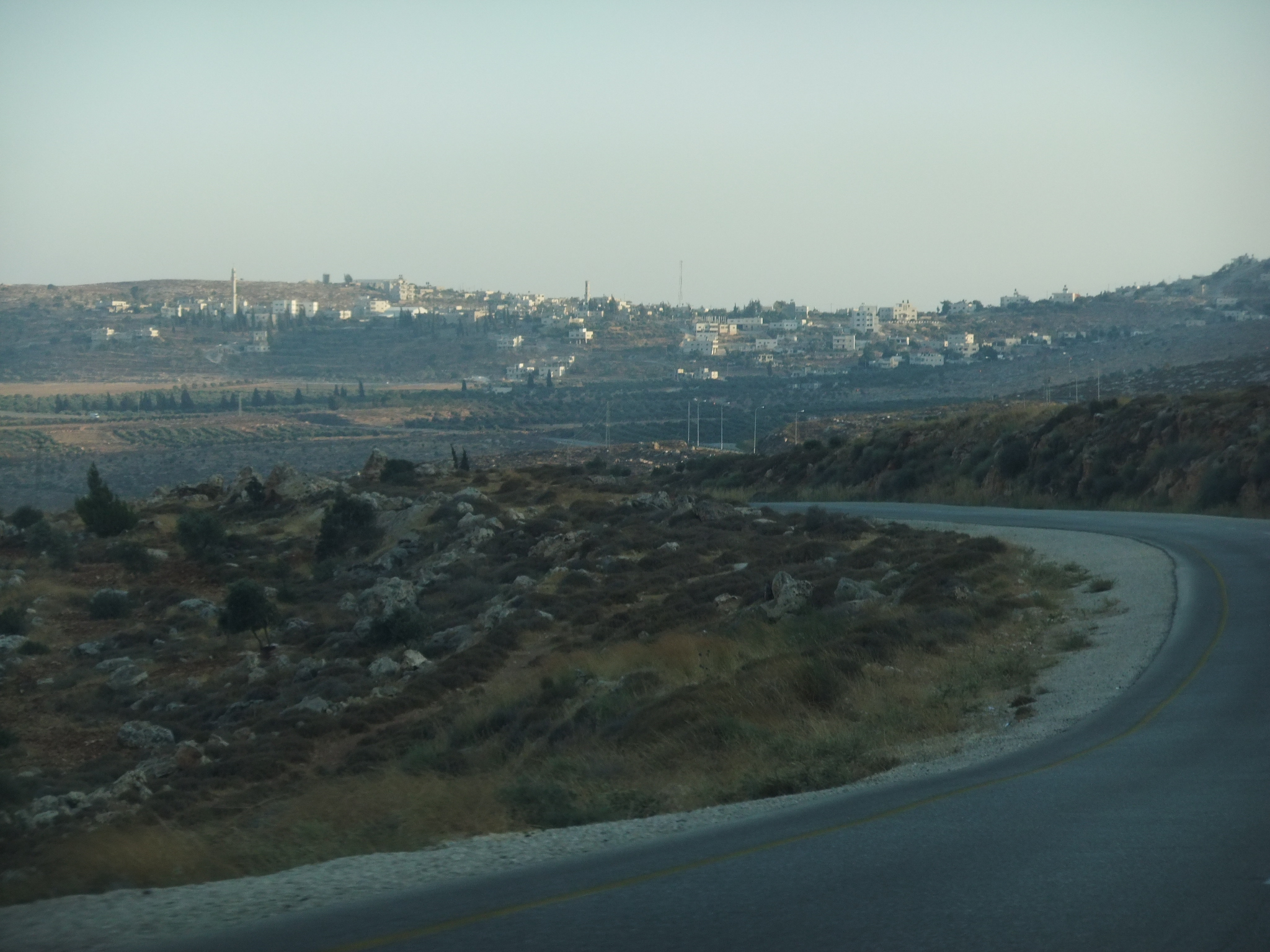 Al-Mughayyir, Ramallah, view from the north on Allon route